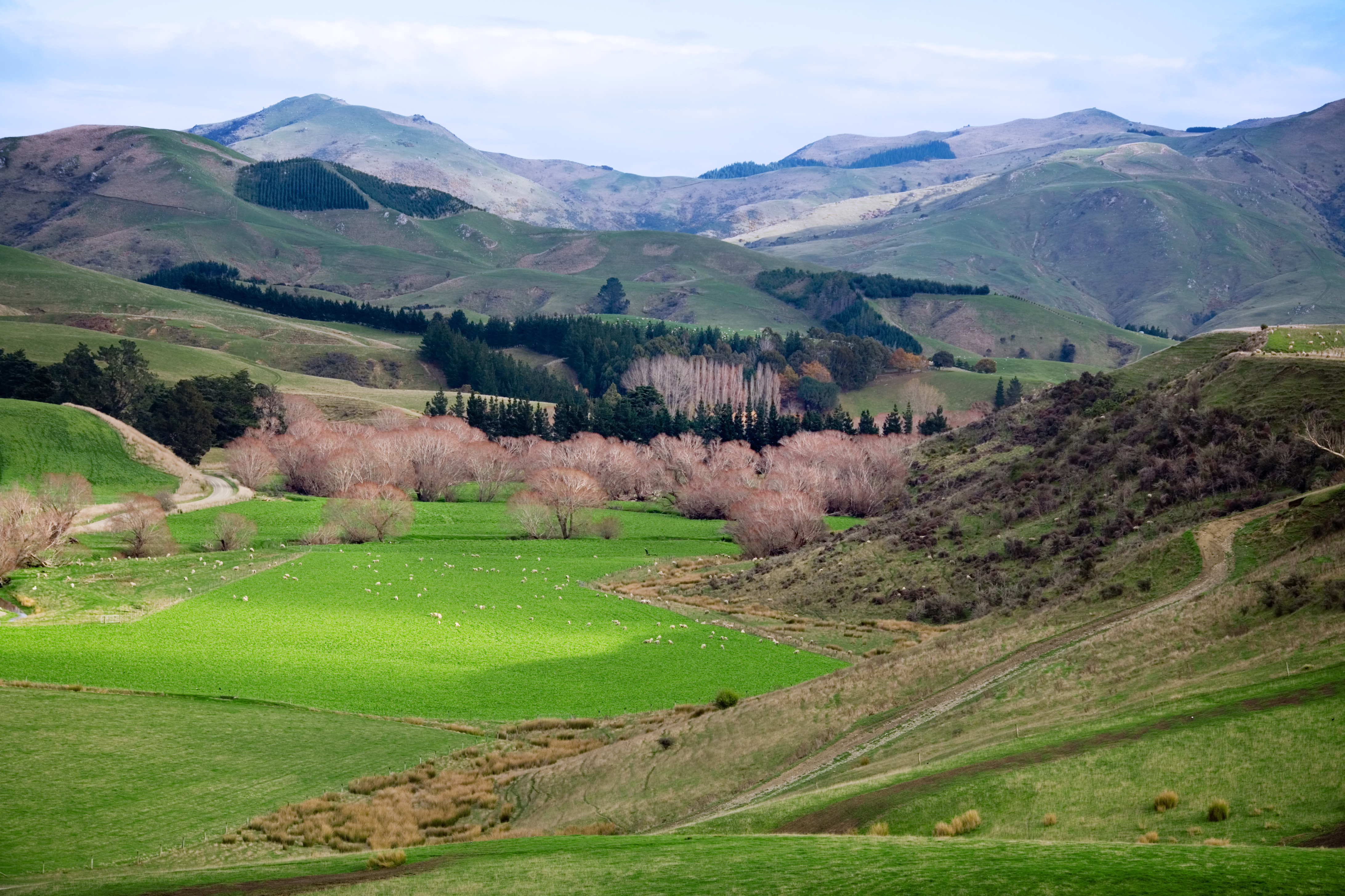 Rural landscape. New Zealand, 2006